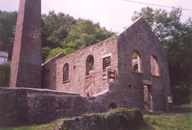 Snailbeach Lead Mine, Worthen with Shelve CP